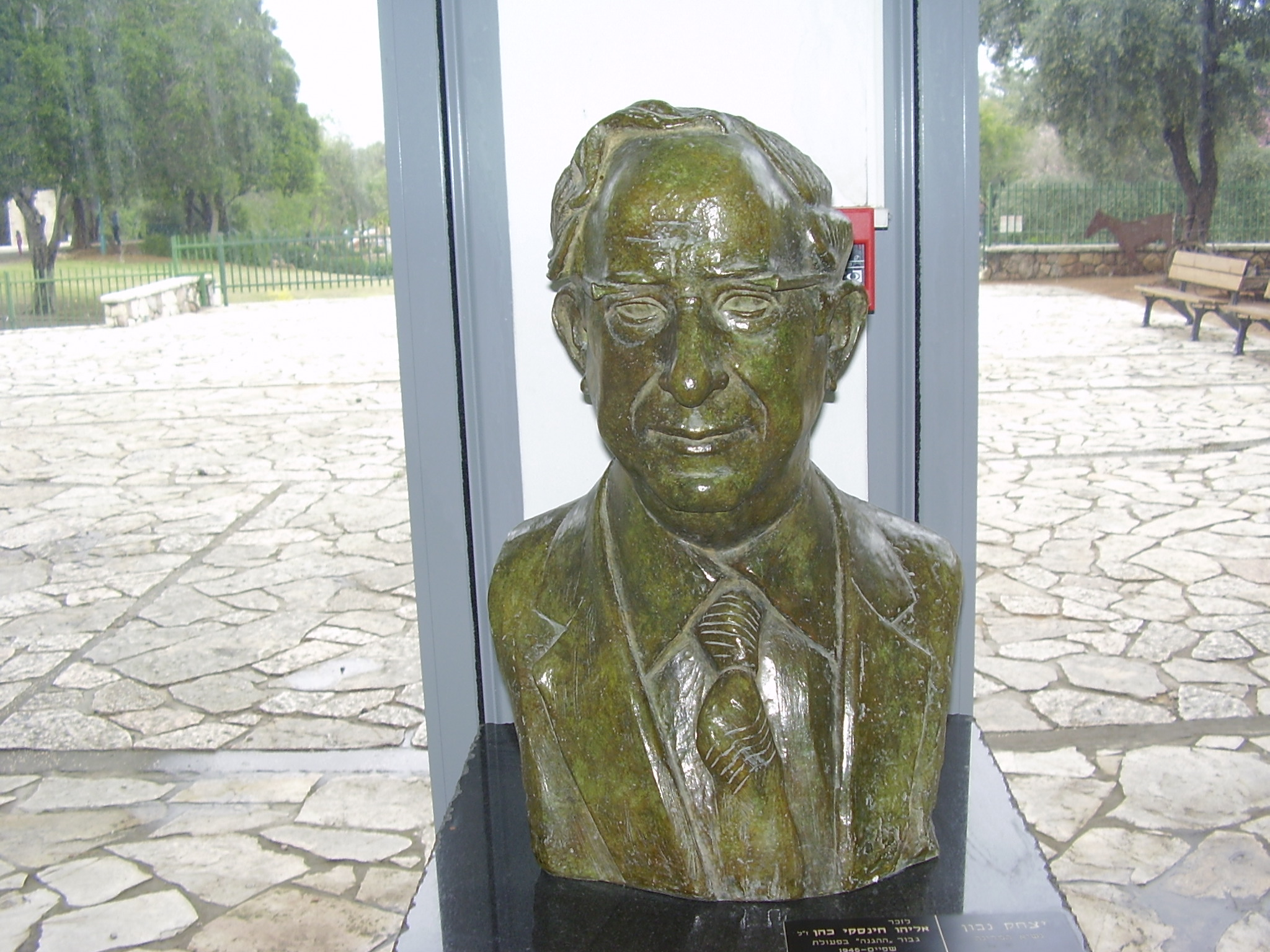 president izhak navon